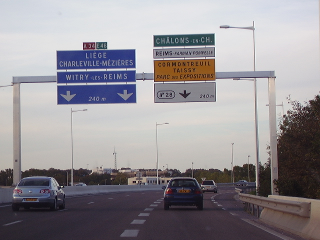 French motorway number A34 at exit 28